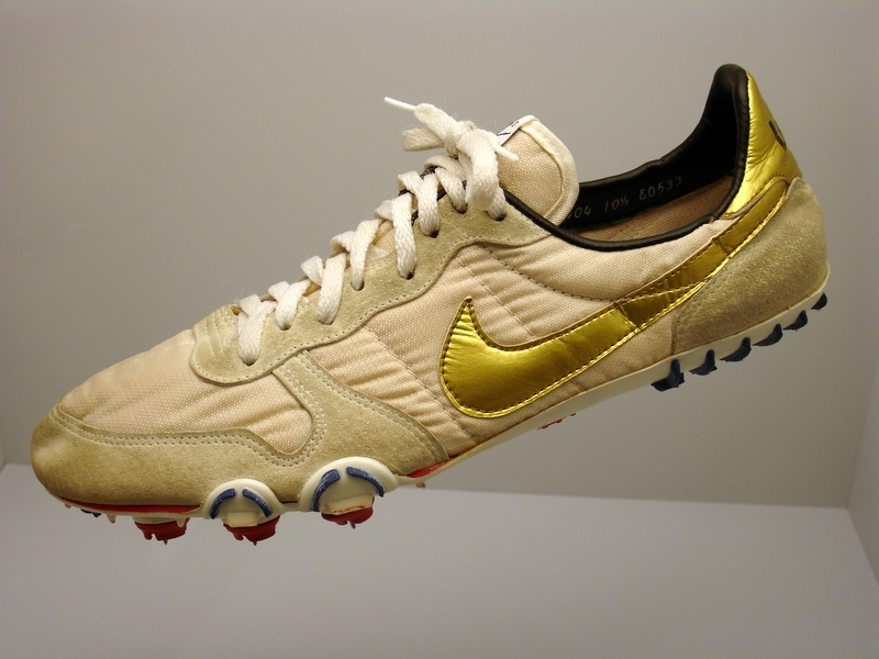 Nike shoes Carl Lewis Olympics